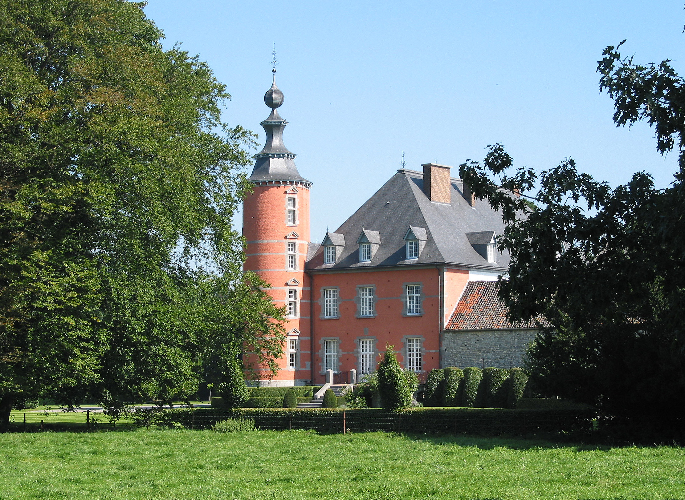 Loyers (Belgium), the castle (XVI/XVIIth centuries).